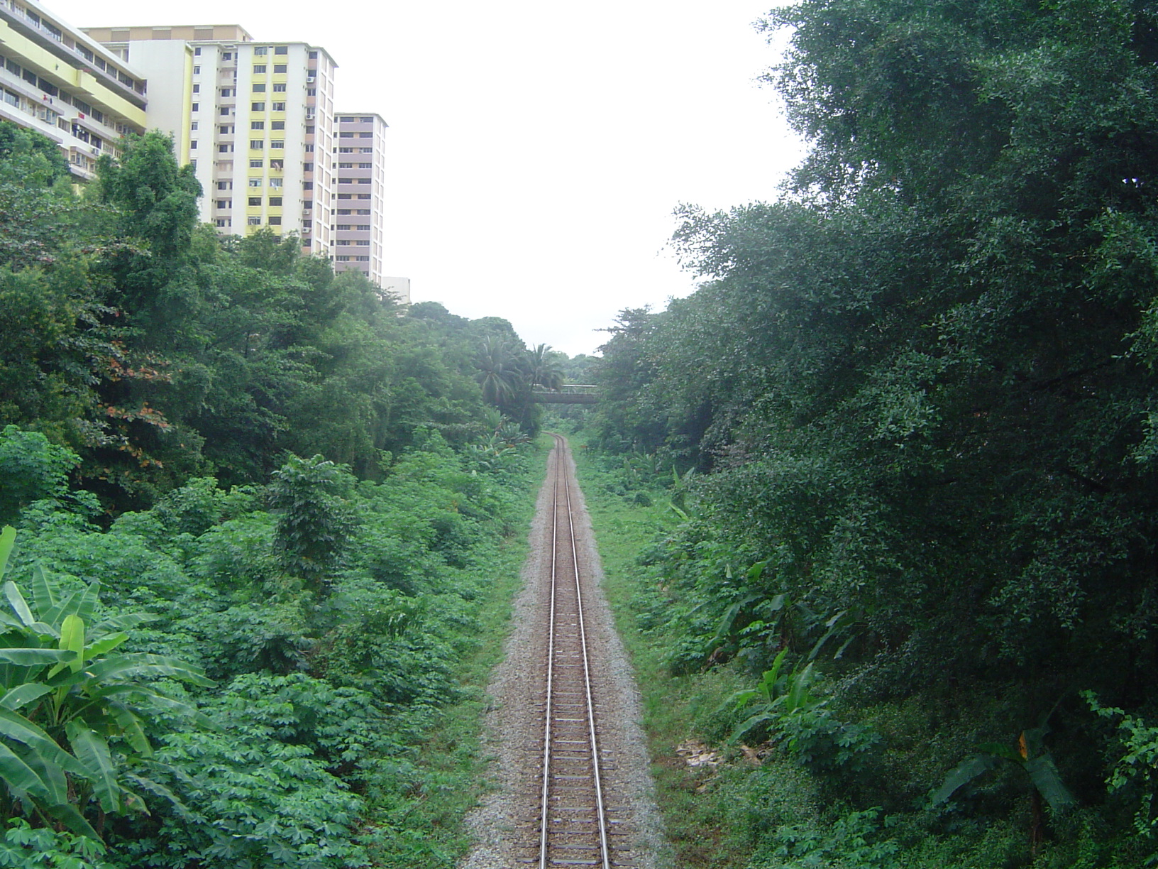 Railway track near Buona Vista MRT station, Singapore.